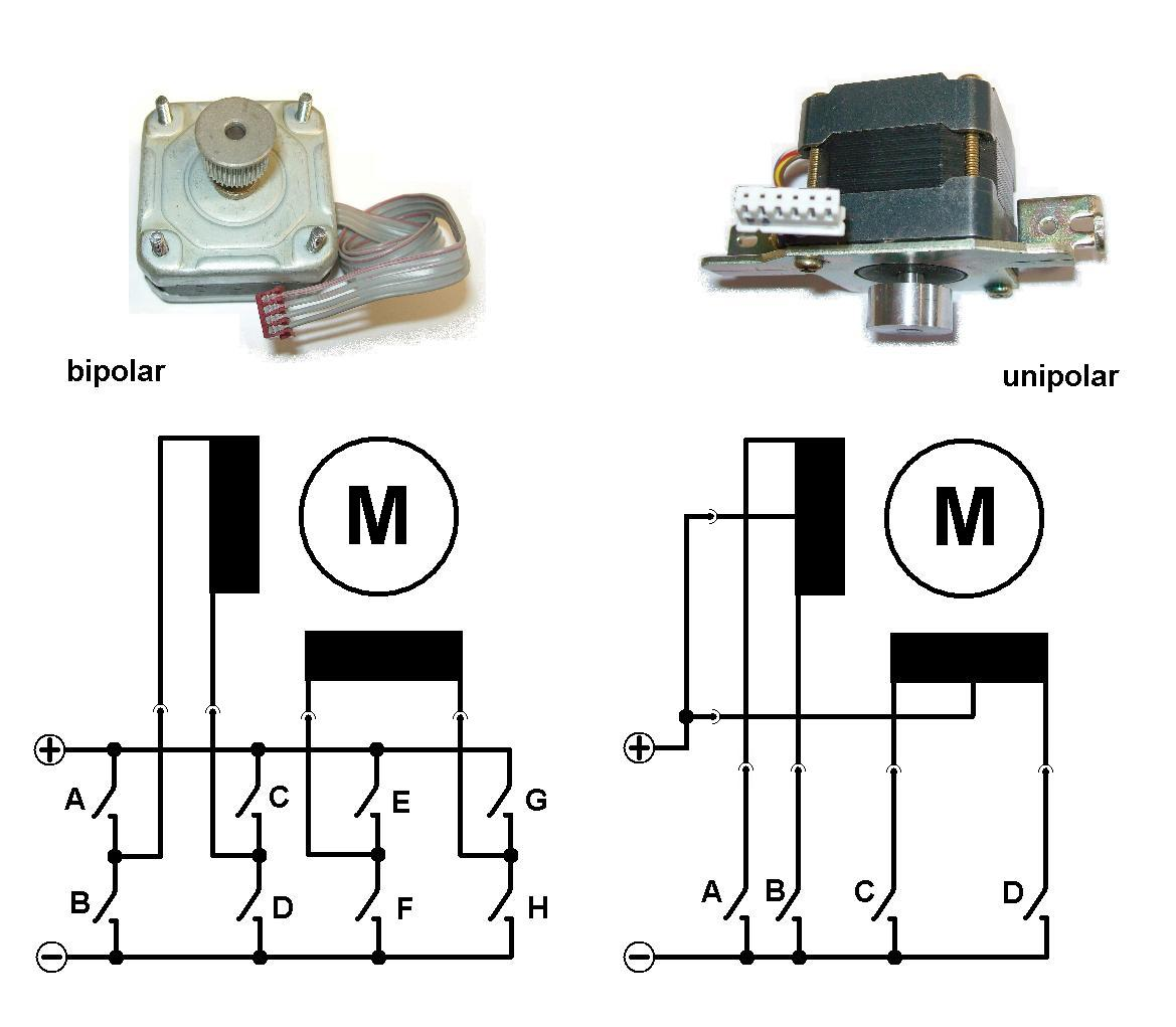 stepper motor schematics